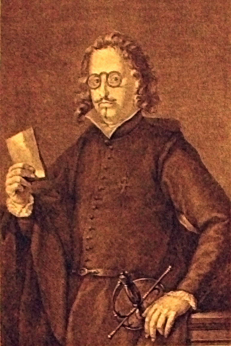 Don Francisco de Quevedo y Villegas After a painting from R. Ximeno steel-engraved by M. Brando